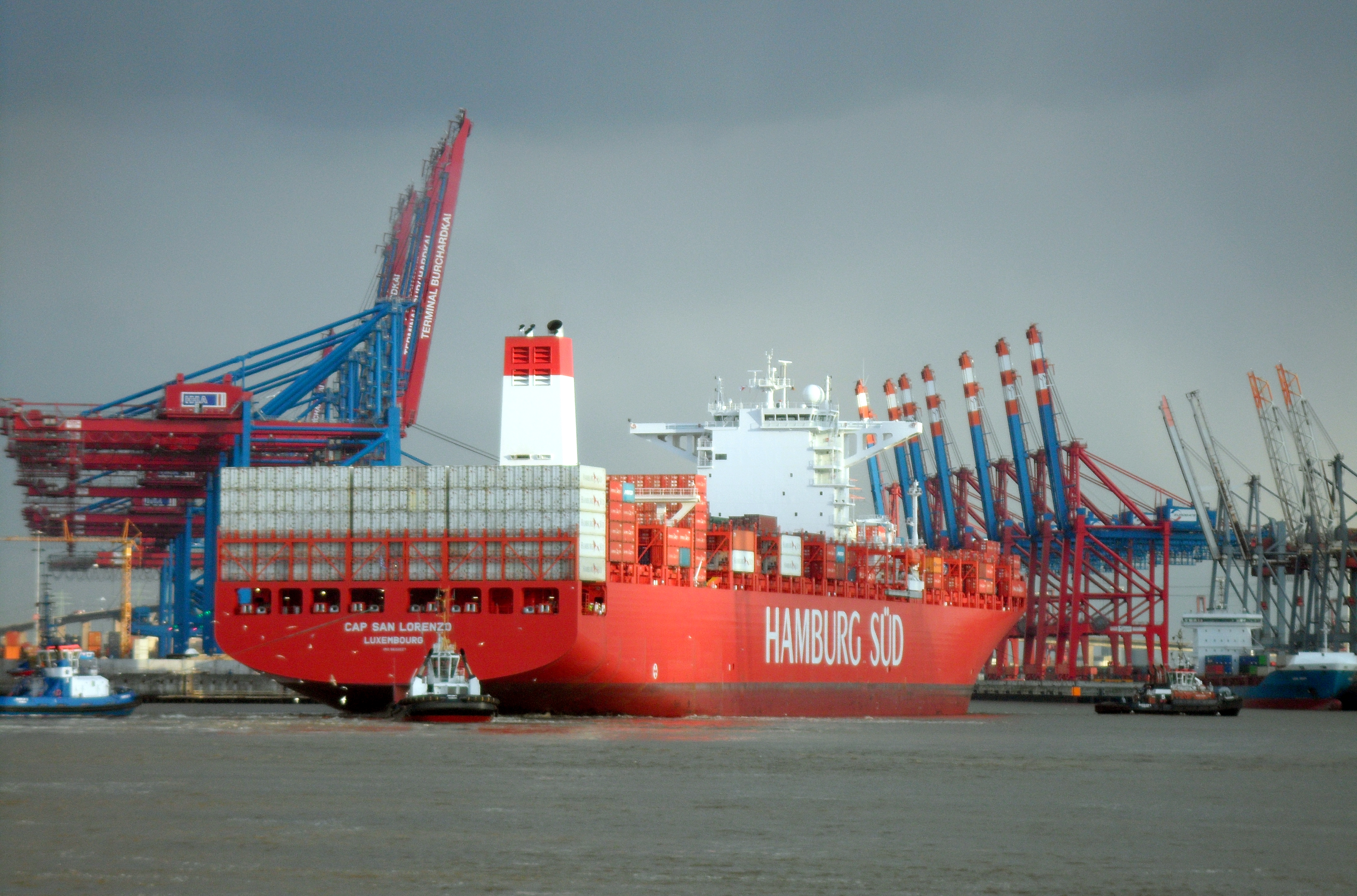 The new HSDG container ship Cap San Lorenzo makes under the assistance of tugs at the Hamburg Burchardkai Terminal fixed